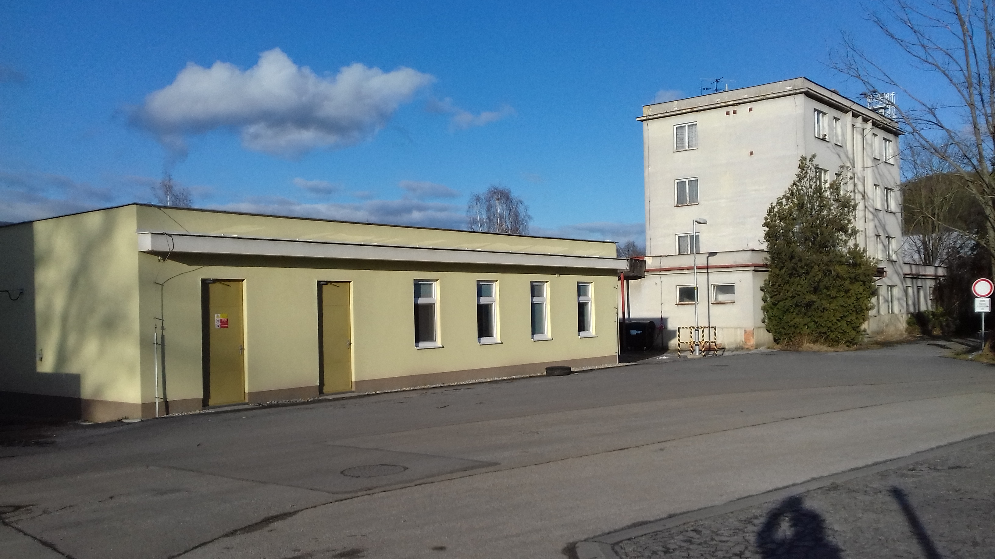 Train station in Kájov, South Bohemian Region, Czechia.